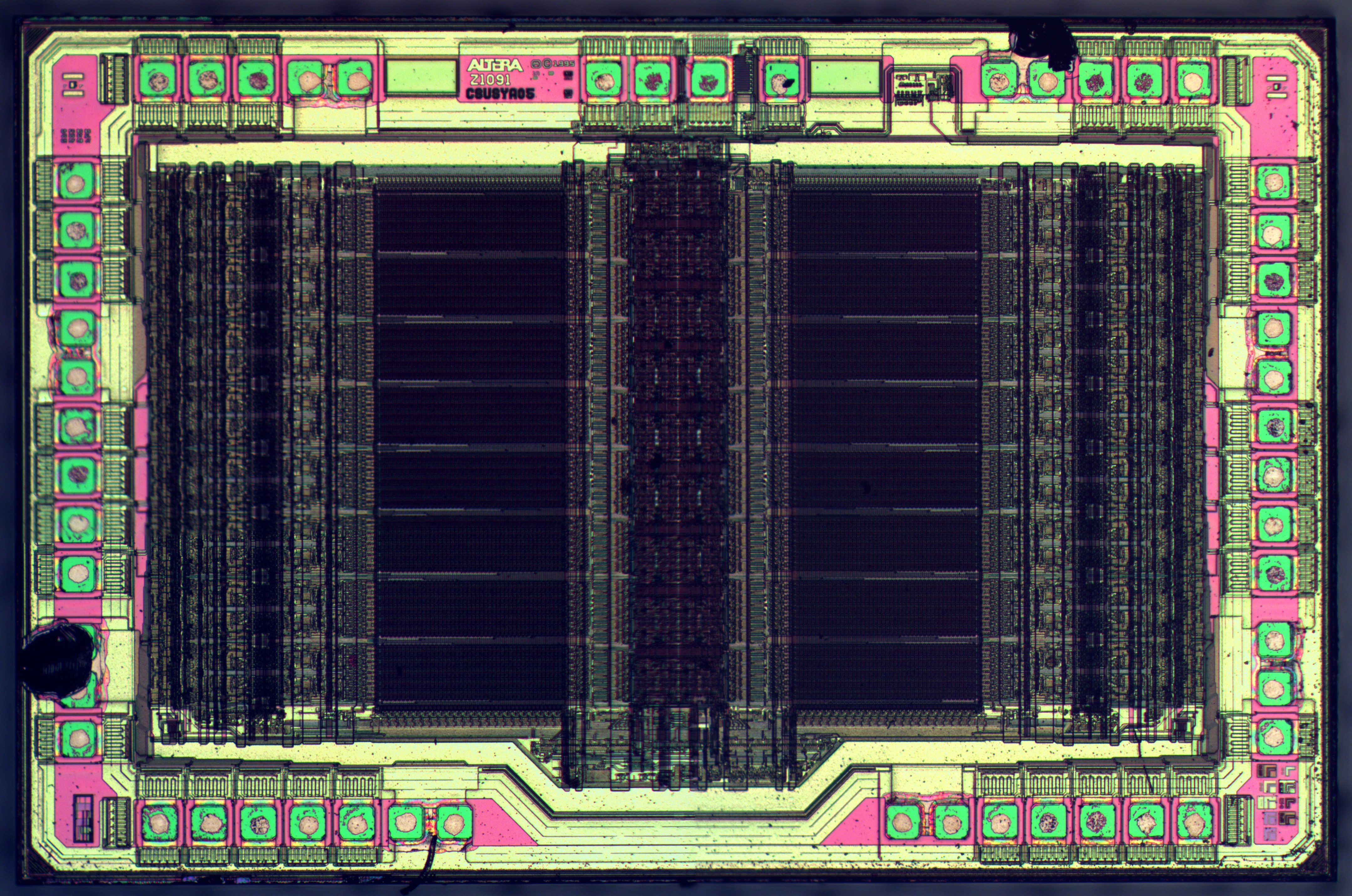 Integrated circuit die photo of an Altera EPM7032 EEPROM-based Complex Programmable Logic Device (CPLD). Die size 3446x2252µm. Technology node 1µm.